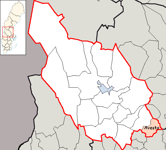 Avesta Municipality in Dalarna County Designd by me, based on Image:Dalarna County.png